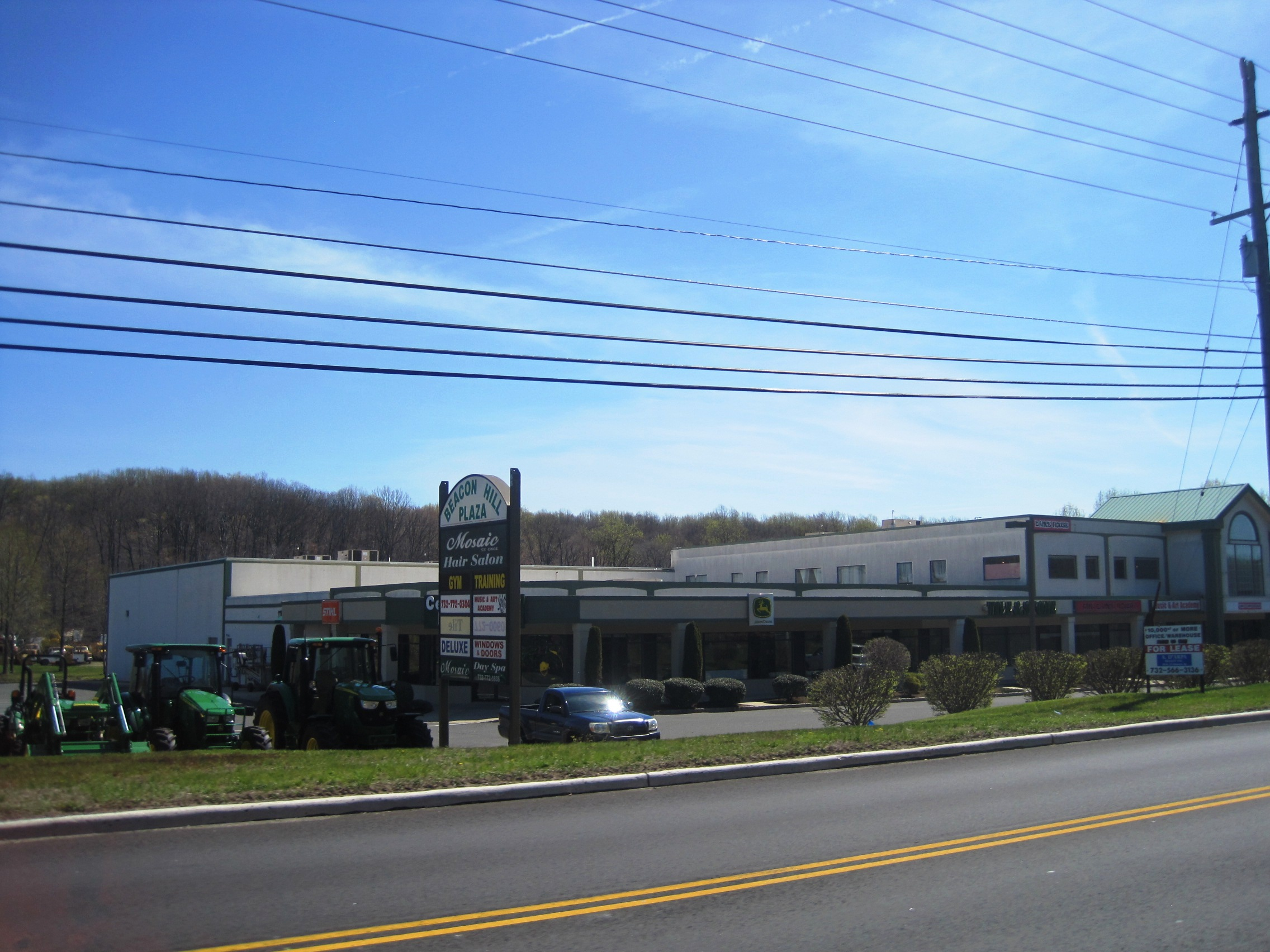 Photo of the Beacon Hill Plaza along New Jersey Route 34 in Beacon Hill, Marlboro Township, New Jersey. Photo taken on Route 34 south of